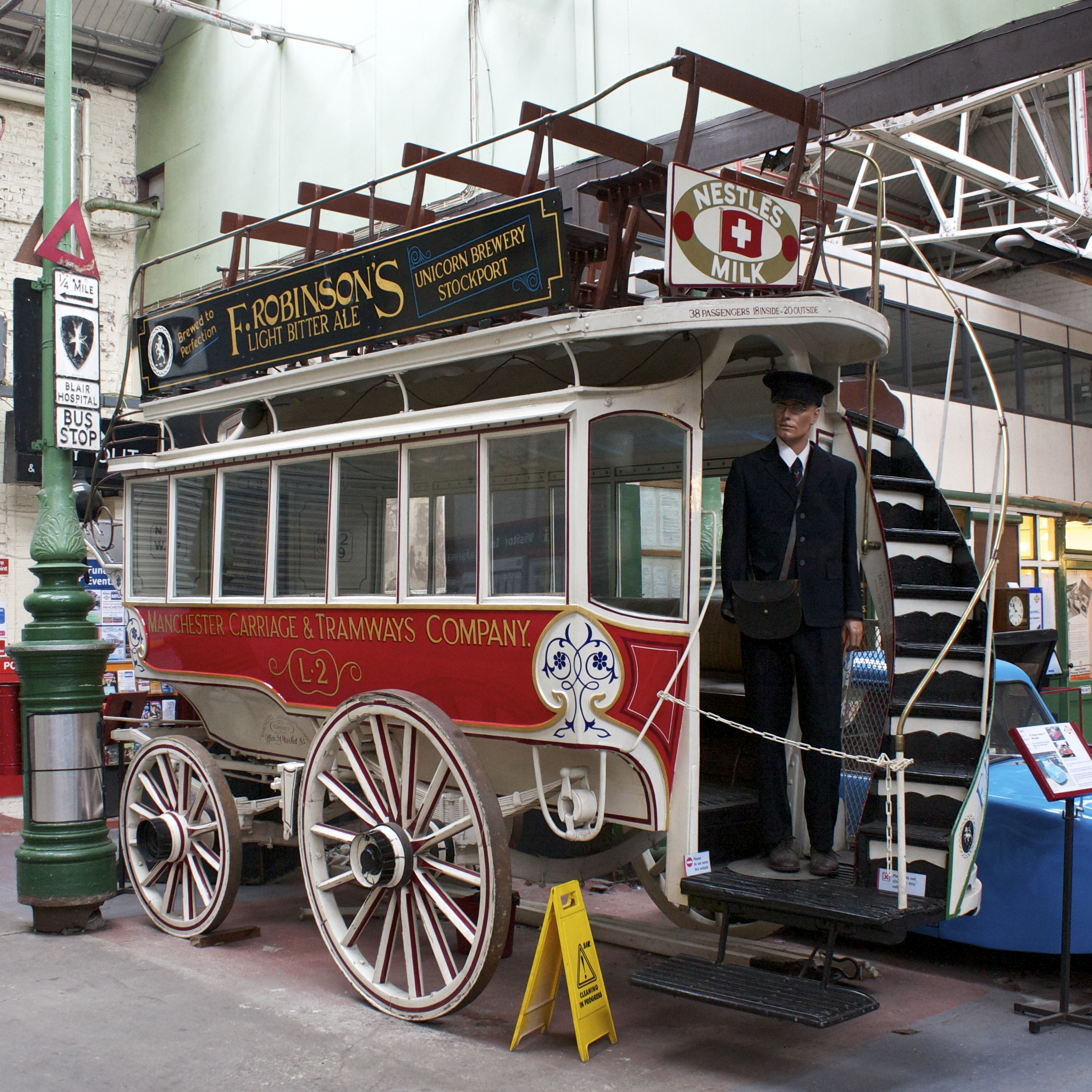 A horse tram from the Manchester Carriage and Tramways Company. This would have been pulled by two horses, or three on steep gradients.